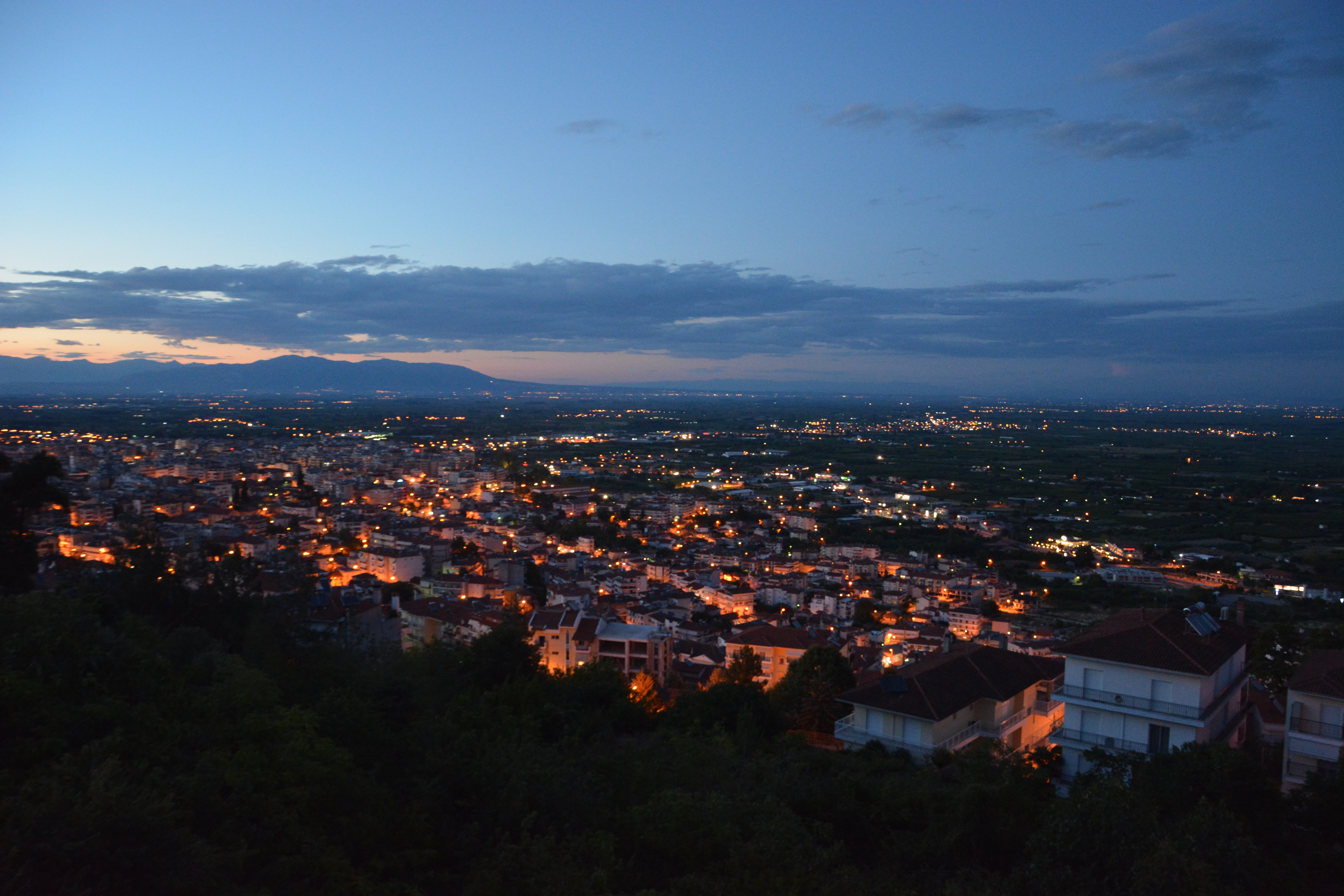 Panoramic view of Veria at sunset time. Photo taken from the Vikela Hill in July 2014.